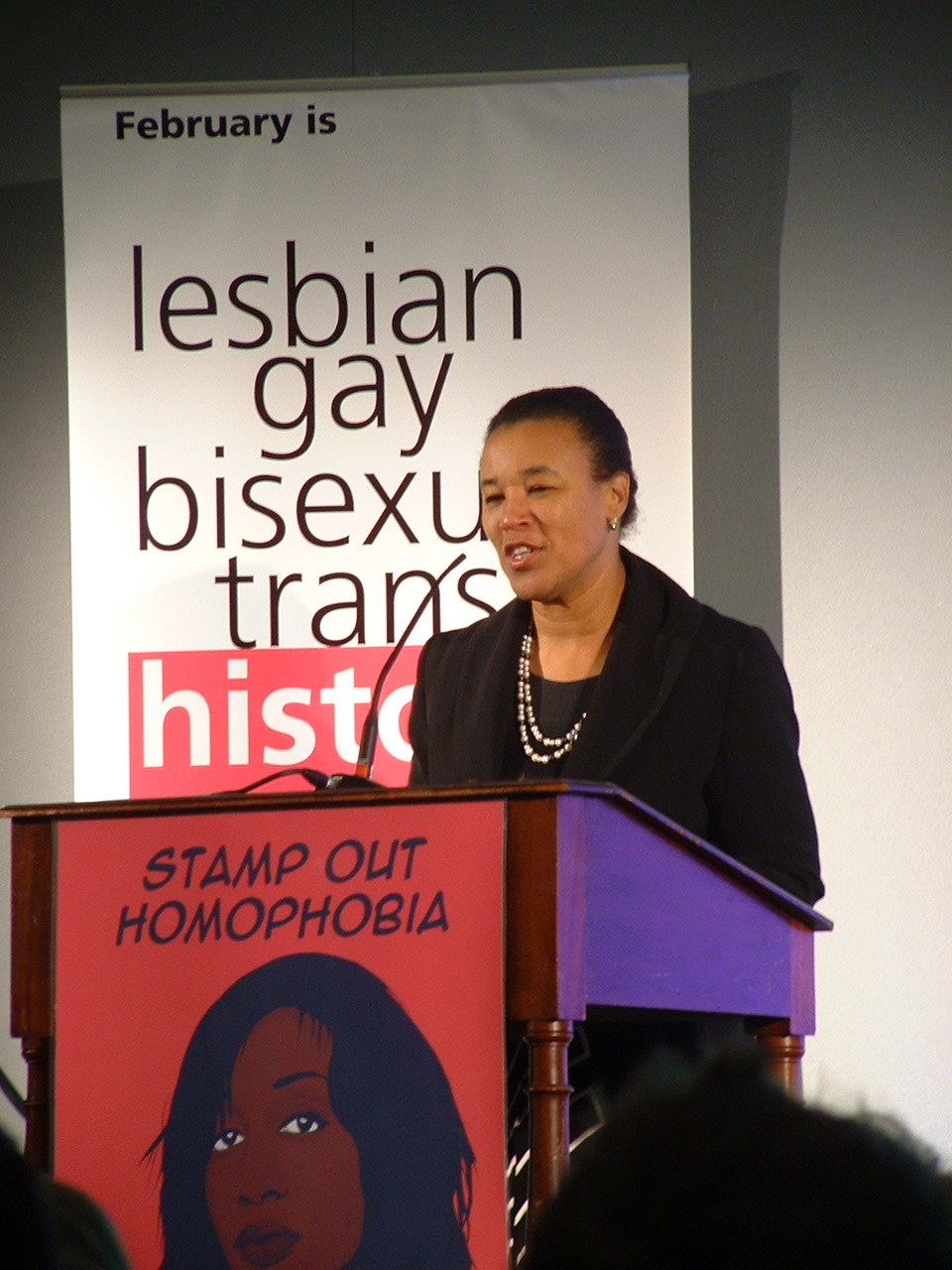 Picture of Patricia Scotland, Baroness Scotland of Asthal QC, Attorney General, speaking at the pre-launch of LGBT History Month 08 at the Royal Courts of Justice on 26 November 2007.